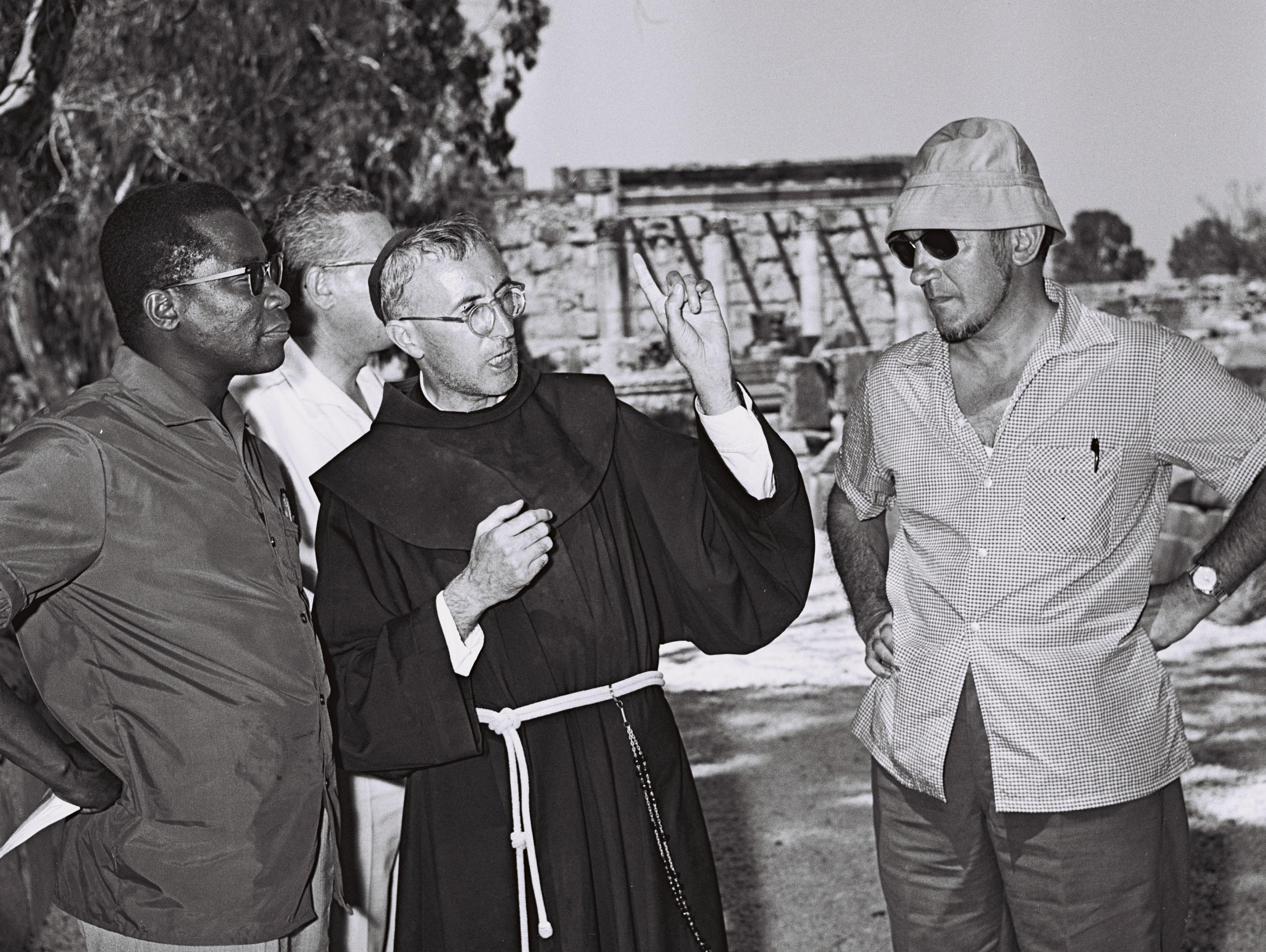 Vice-premier of Chad, Gabriel Lisette, visiting the antiquities in Capernaum.